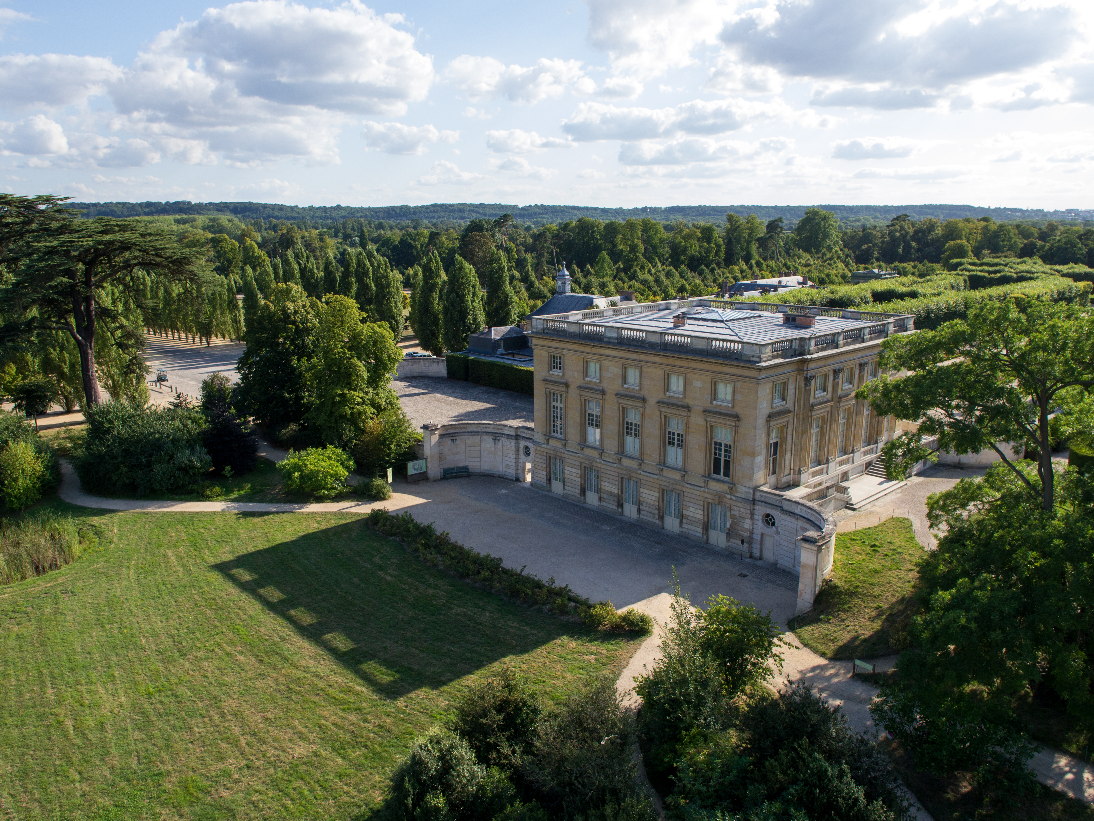 Aerial view of the Petit Trianon, Domain of Versailles, France